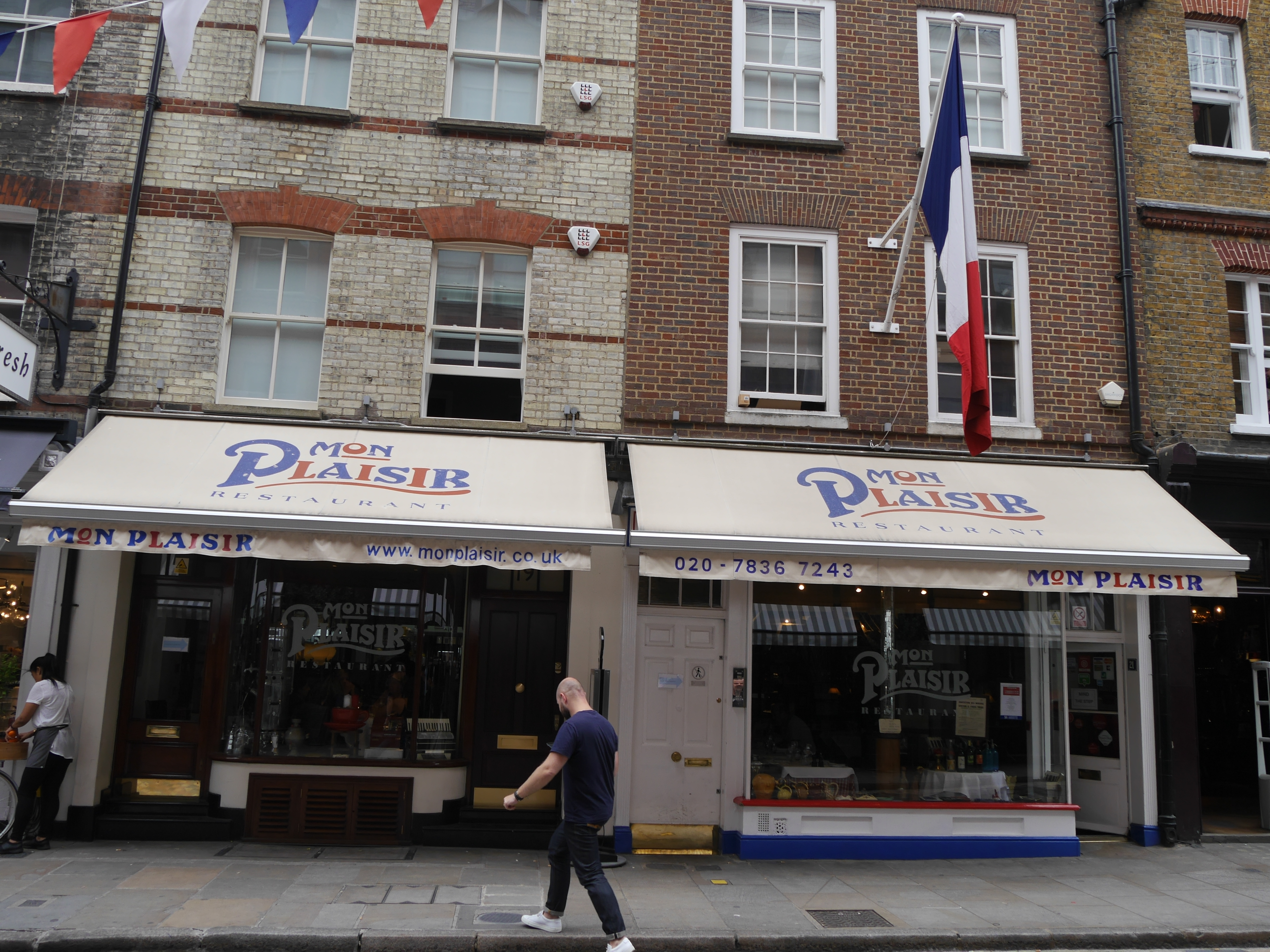 Monmouth Street, Covent Garden